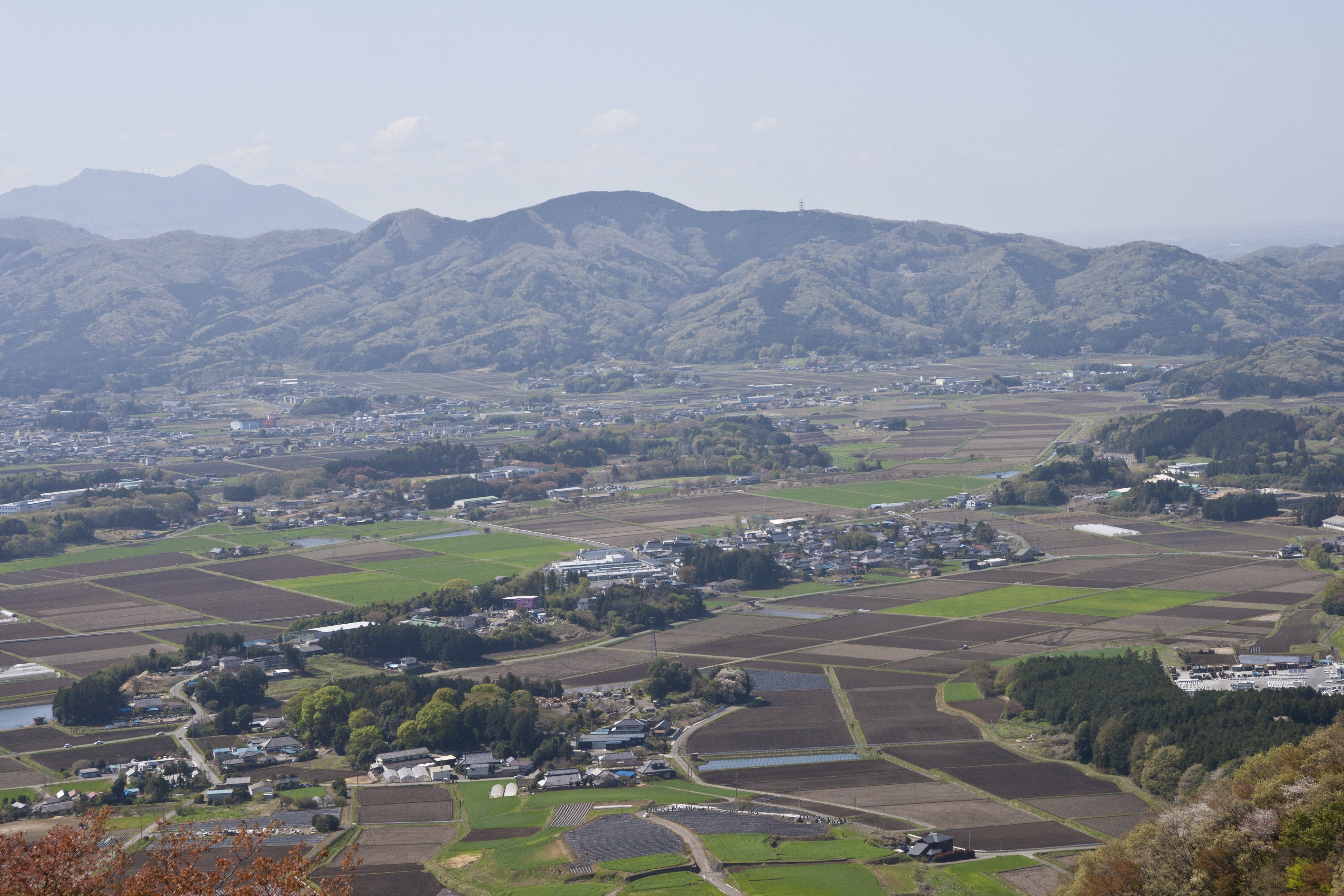 Mount Amabiki as seen from Mount Takamine, Yamizo Mountains, Ibaraki Prefecture, Honshu, Japan